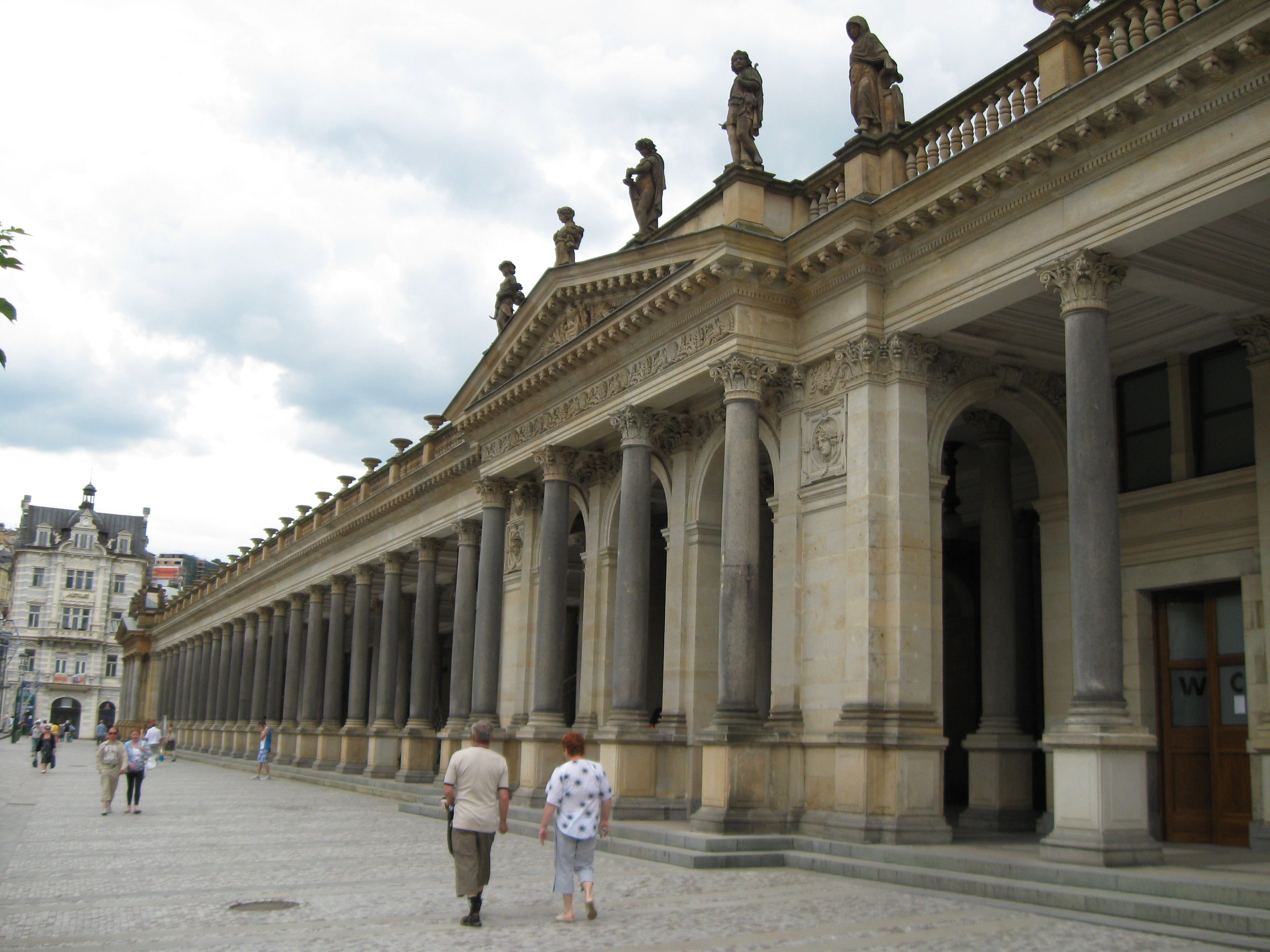 Mill Collonade - front view, Karlovy Vary, Czech Republic.